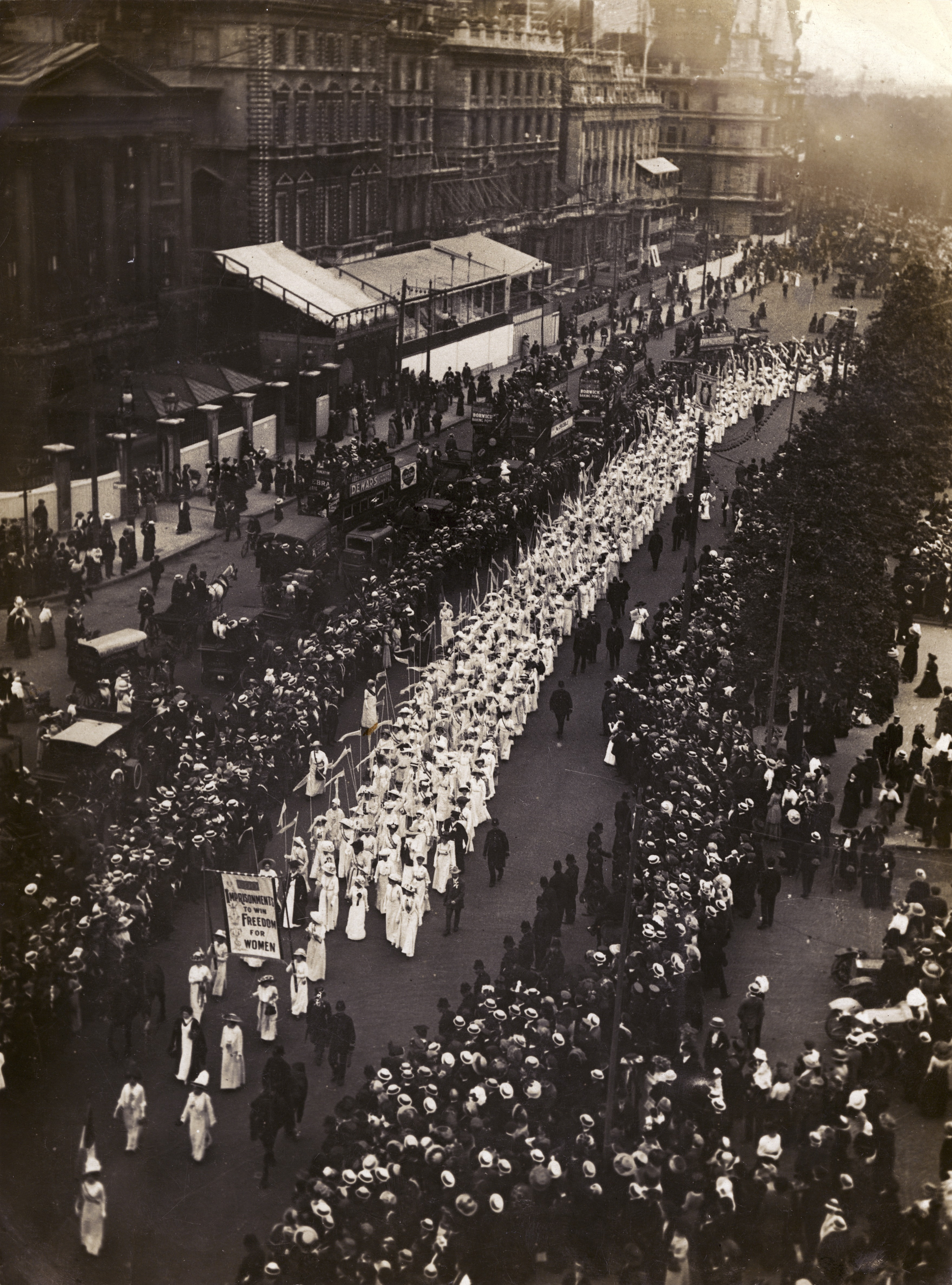 7JCC/O/02/074 Photograph, printed, paper, monochrome, aerial view of the 'Prison to Citizenship' pageant in the women's Coronation procession in London; manuscript inscription on reverse 'Grace Roe, Green Cottage, Pembury, Tunbridge Wells, Kent', printed 'Underwood & Underwood, London'